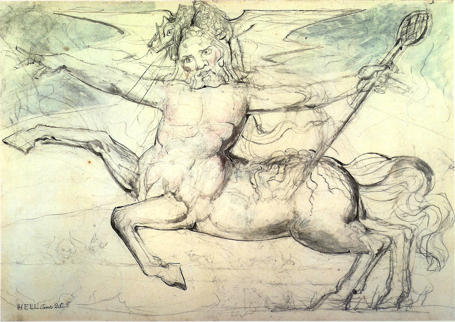 Based on Dante, Divina Comedia, Inferno, Canto XXV, 12-33. Vanni Fucci was the illegitimate son of Fuccio de' Lazzari. That the mythological monster Cacus was a centaur is Dantes invention.